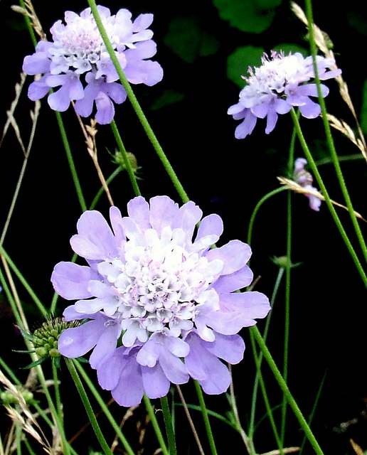 Scabious On the bank of the Craigmill Burn.